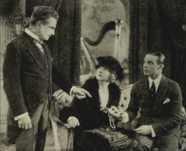 Still from the American film The Four Horsemen of the Apocalypse (1921) with John St. Polis, Alice Terry, and Rudolph Valentino, on page 40 of the October 1922 Photoplay. The still was used in an article on film censorship and noted that the Pennsylvania film censor board had required changes in the relationship between two characters, making Terry's character a fiancée instead of a wife (so that her affair would not be adultery).